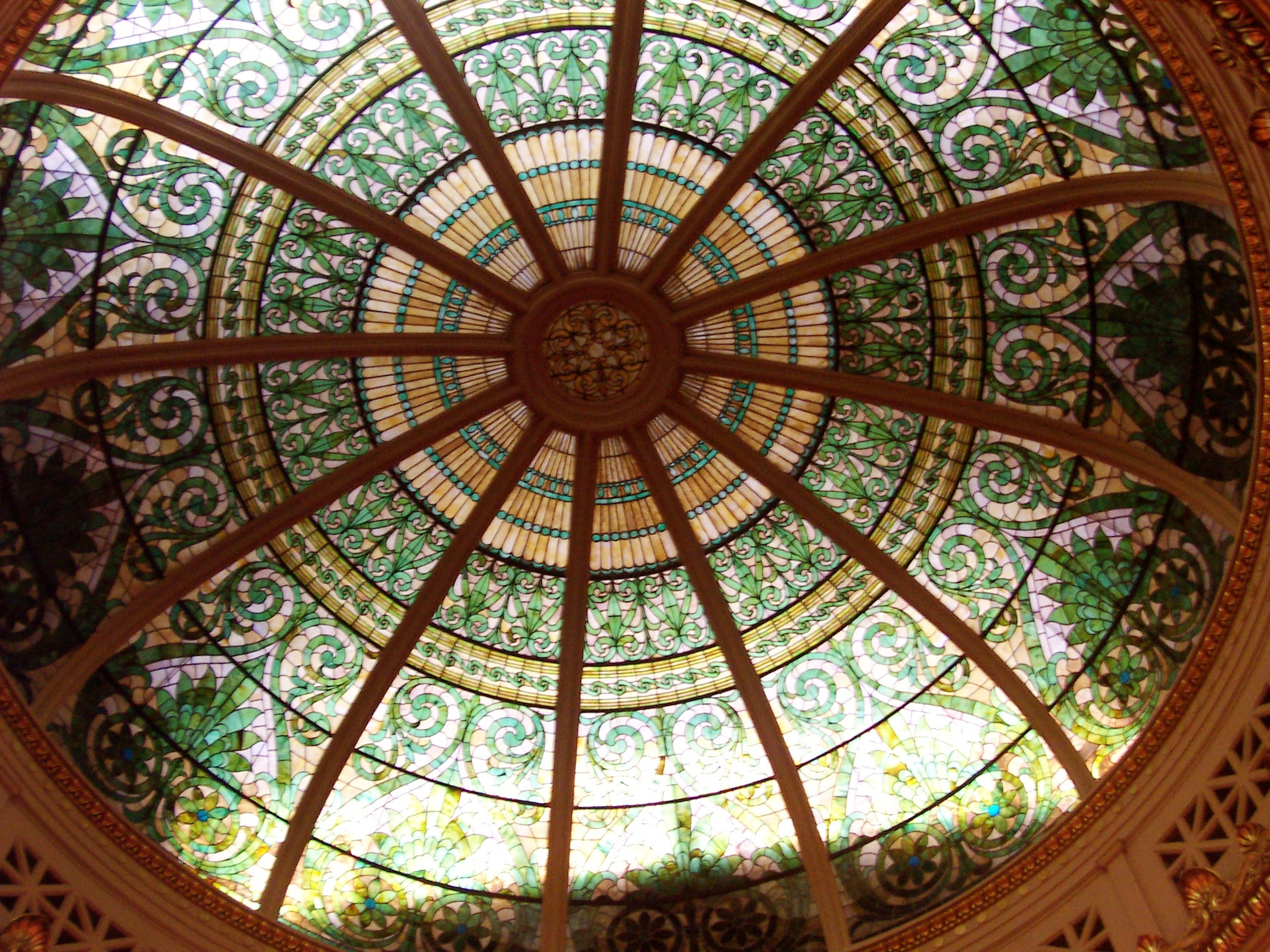 Pennsylvania State Capitol, Supreme Court Dome Harrisburg, Pennsylvania, 11/26/2005, Self Photo - taken November 26, 2005 by User:Michael180 ( with a Kodak EasyShare CX6330.